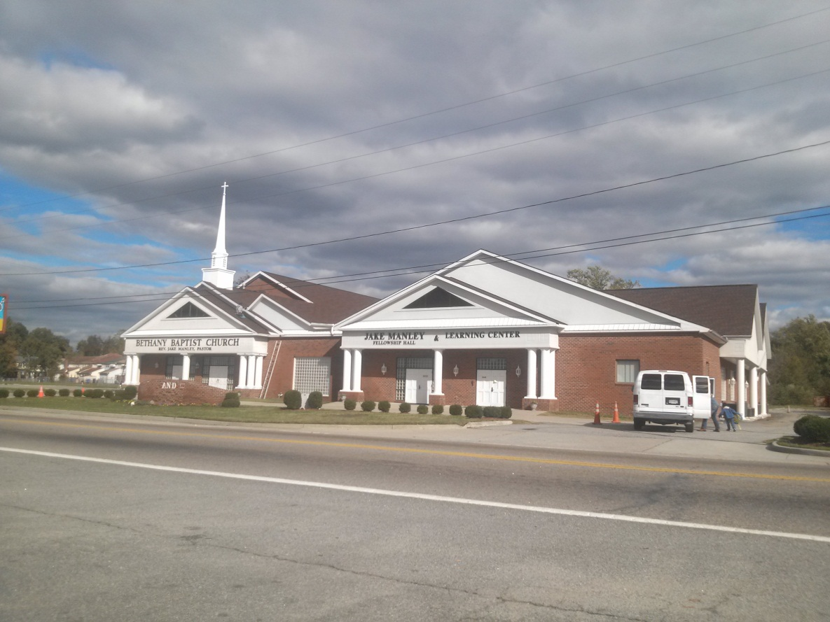 Bethany Baptist Church South Norfolk built in 1996.